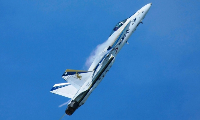 US Navy F/A-18C Hornet Fighter Aircraft. Photo by Scott Dunham, April 25, 2009, at Airpower Over Hampton Roads, Langley AFB, Virginia, USA.